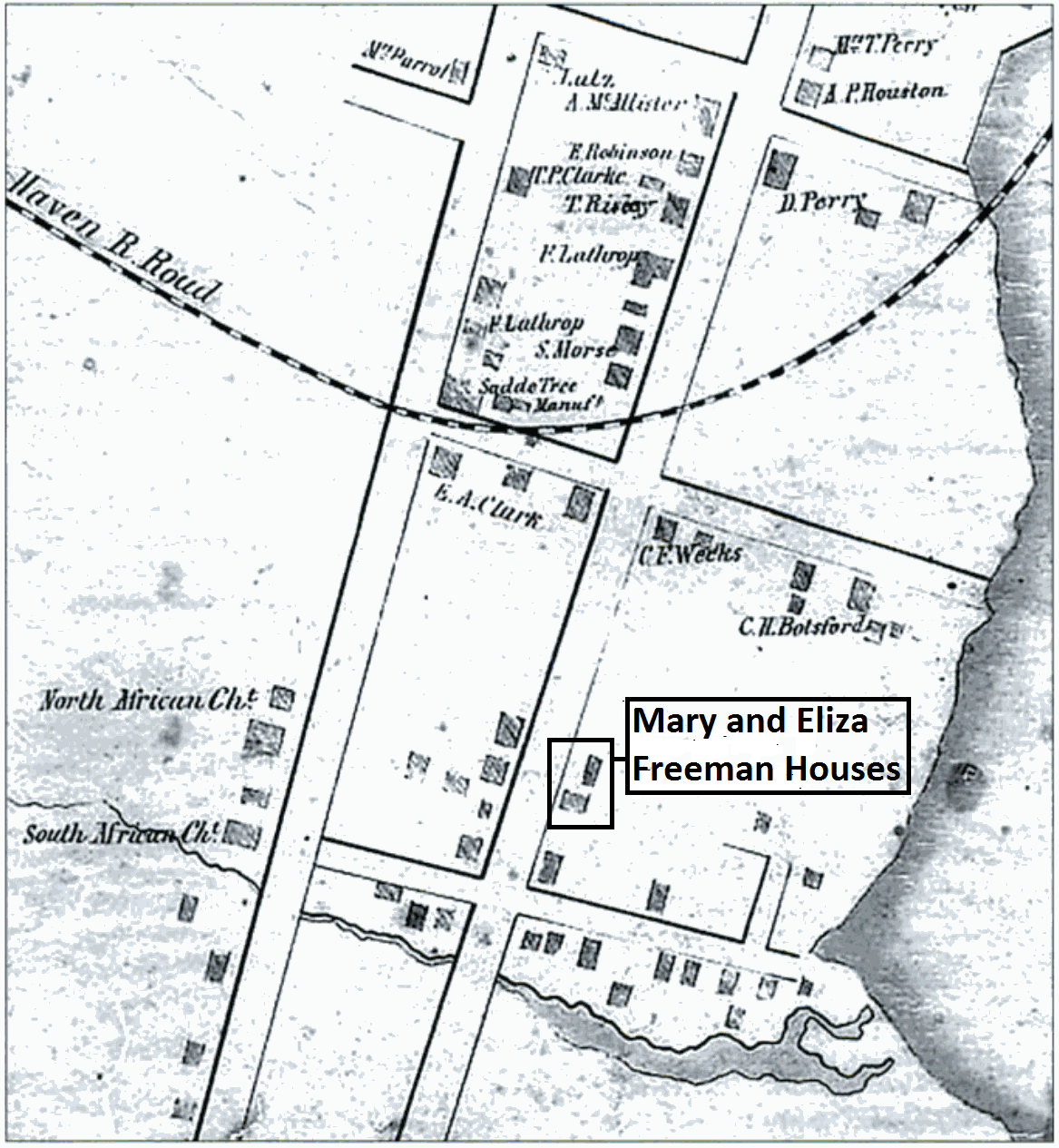 Map of South End neighborhood of Bridgeport, Connecticut depicting churches of Little Liberia, an African American neighborhood with designations of historic homes.